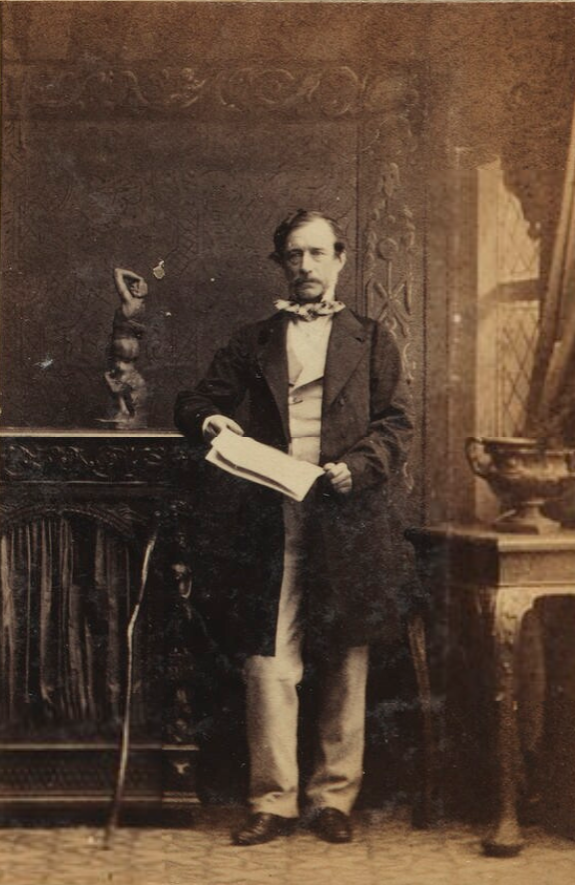 Portrait of Sir William Erskine Baker (1808–1881), British army officer and engineer.